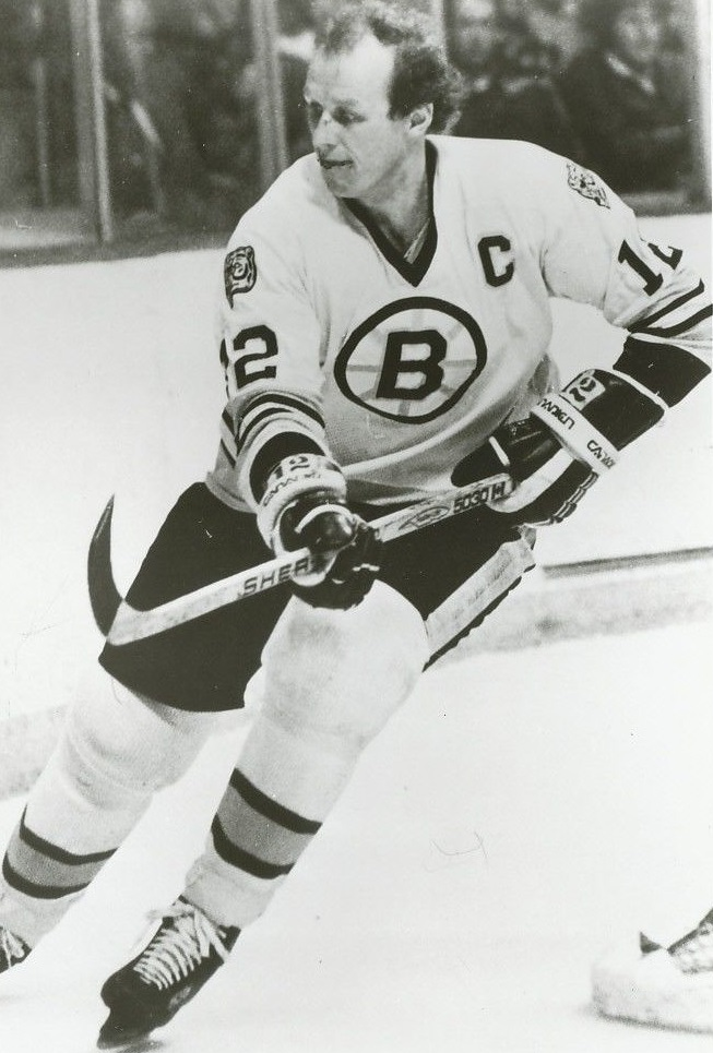 Wayne Cashman in 1981